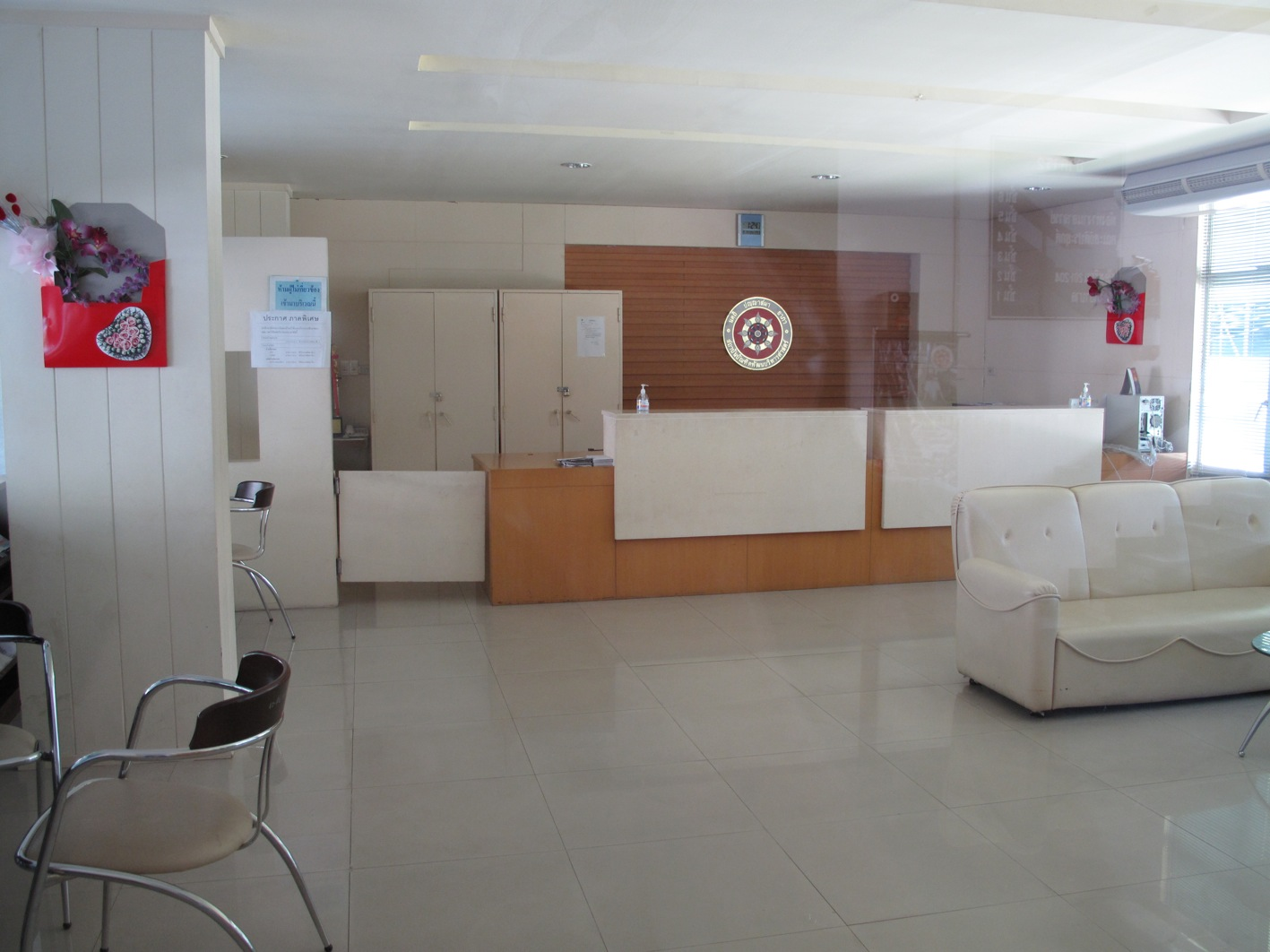 Bulid 2 floor 1 at NIDA